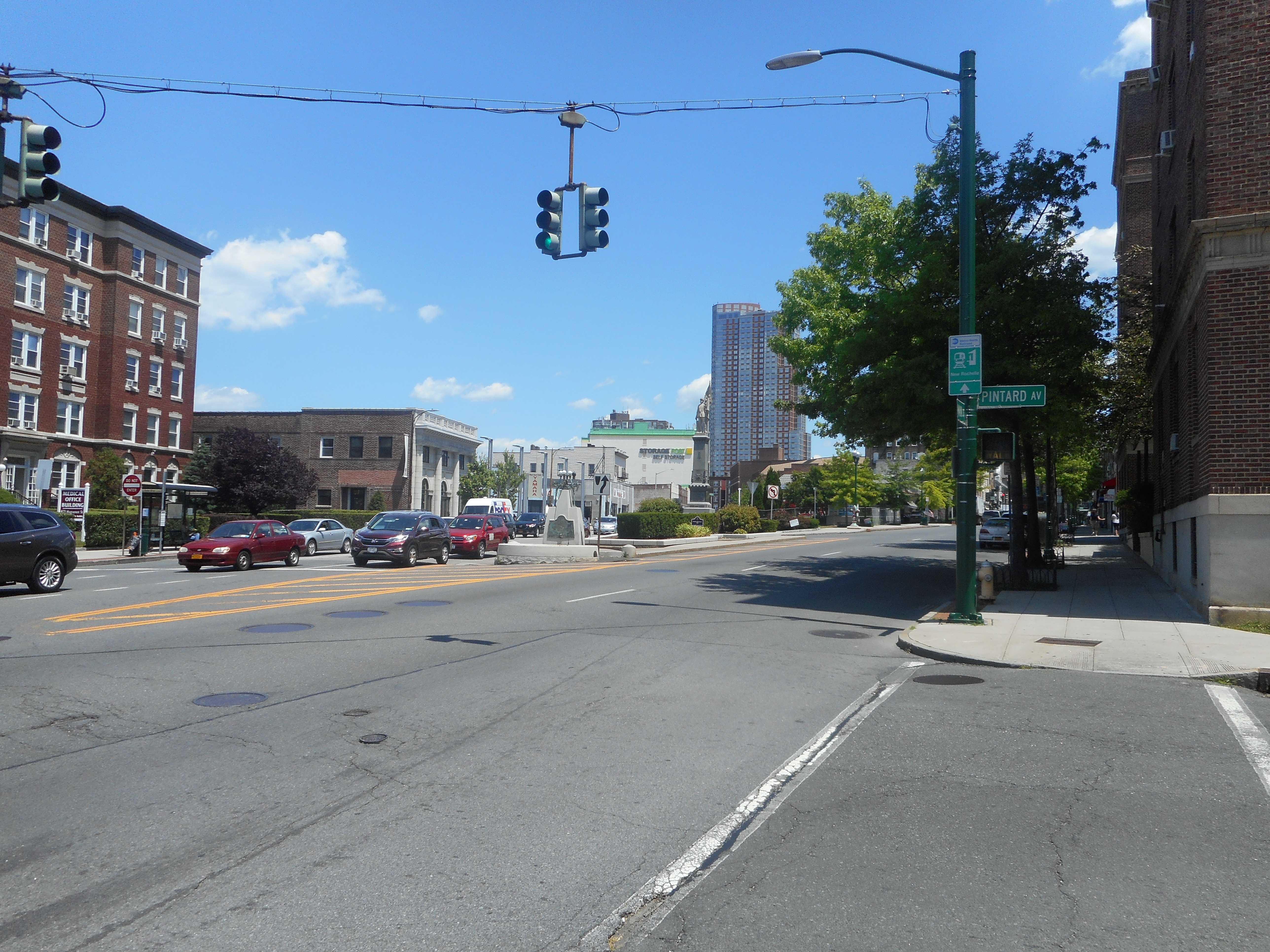 The southwestern end of Huguenot Street at Main Street, where US 1 splits into a one-way pair in New Rochelle, New York.